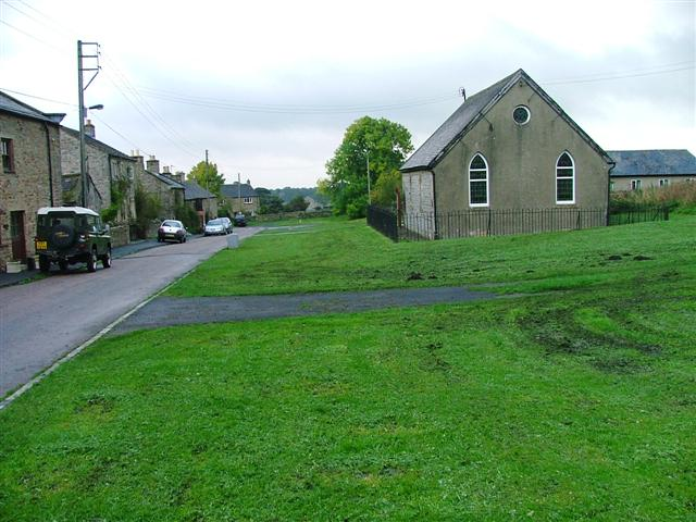 Boldron Green and Methodist Church